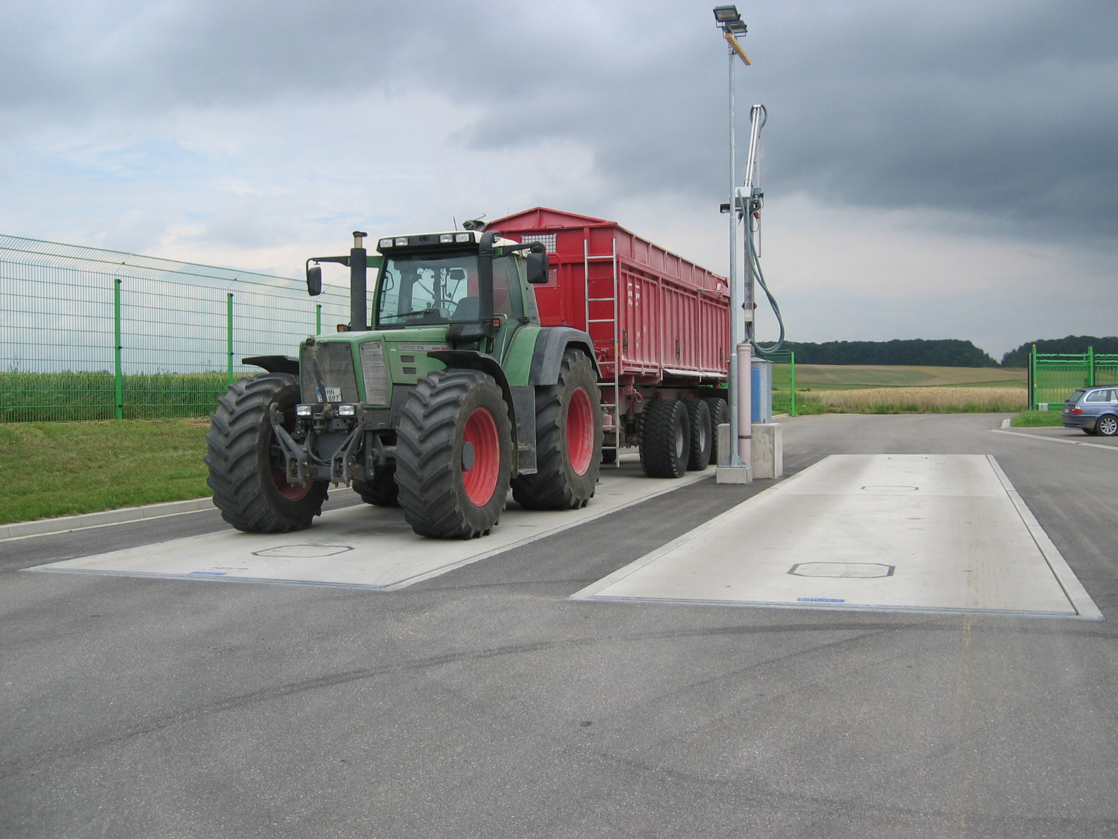 tractor with trailer on weighing bridge. It seems that there is a grain storage in the background of the photographer. the machine right of the tractor is there to take samples of grain off the trailer